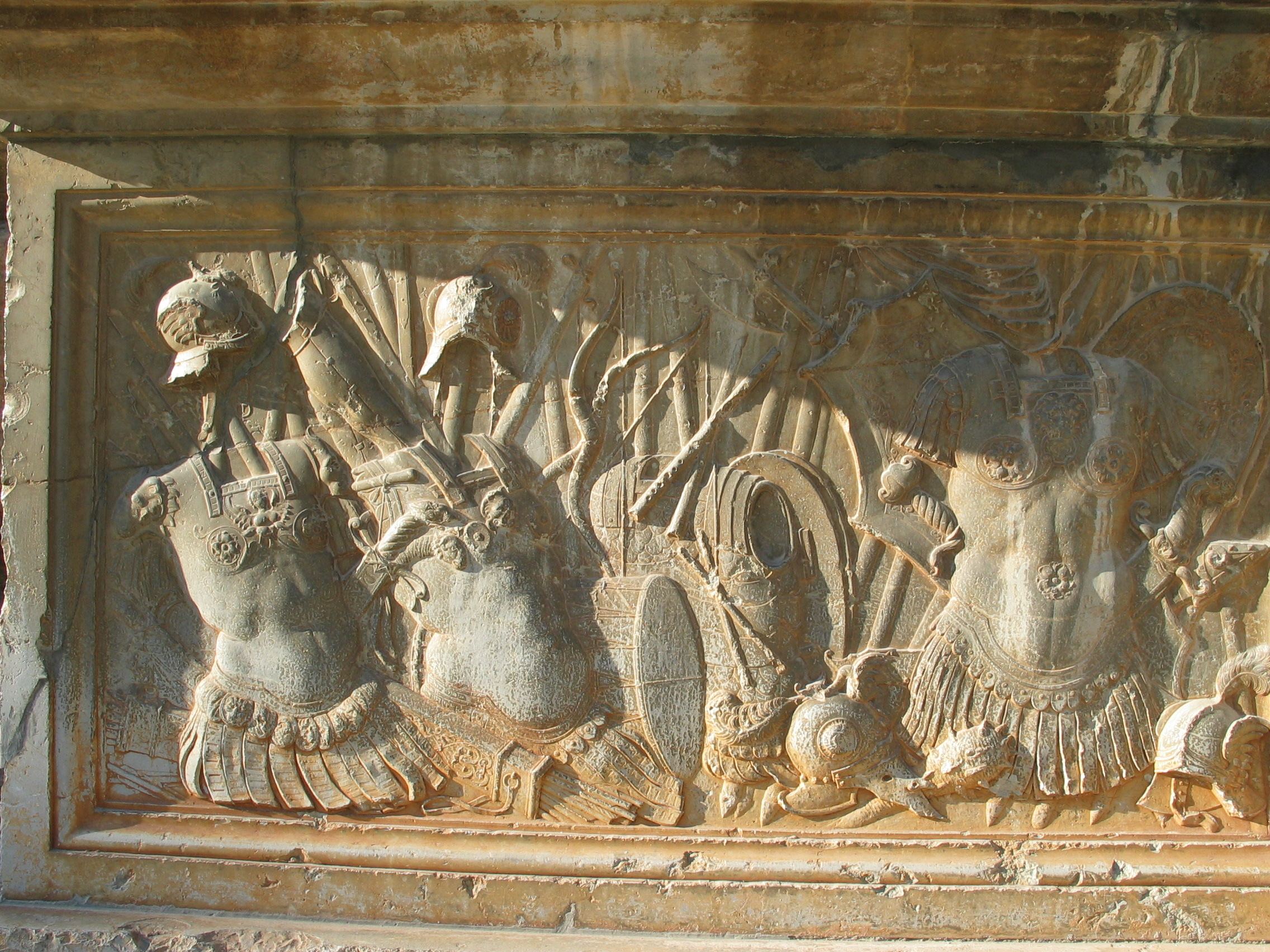 Palace of Charles V exterior bas-relief (Alhambra, Spain)